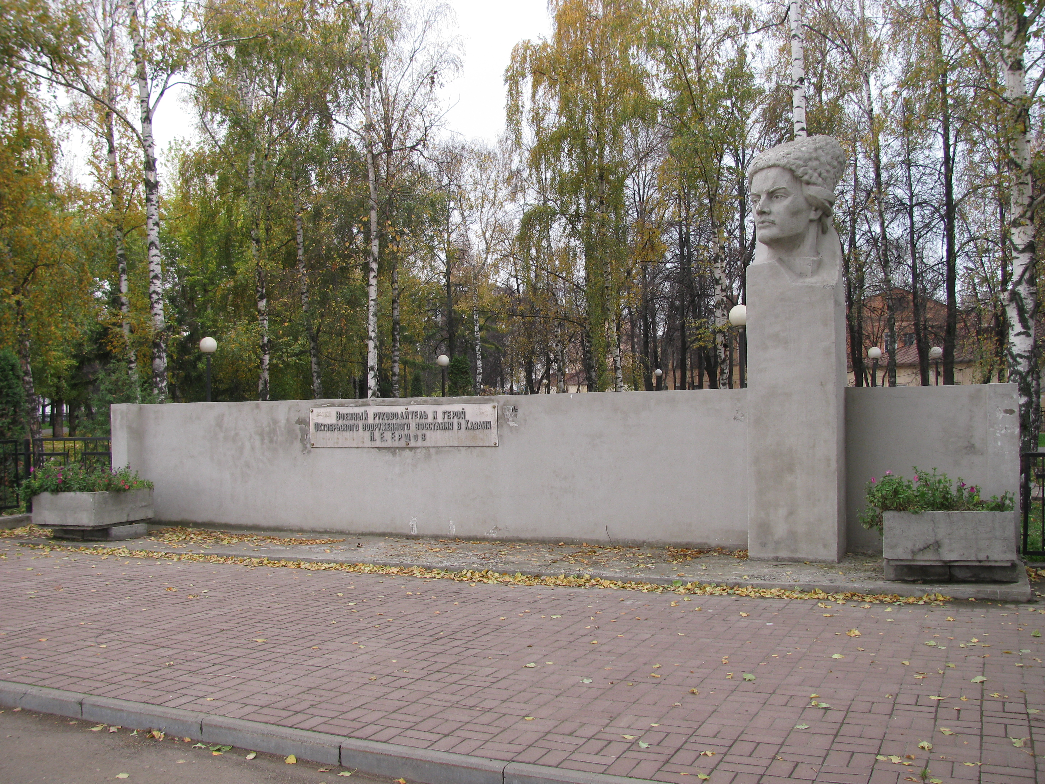 Monument to Nikolay Ershov in Kazan